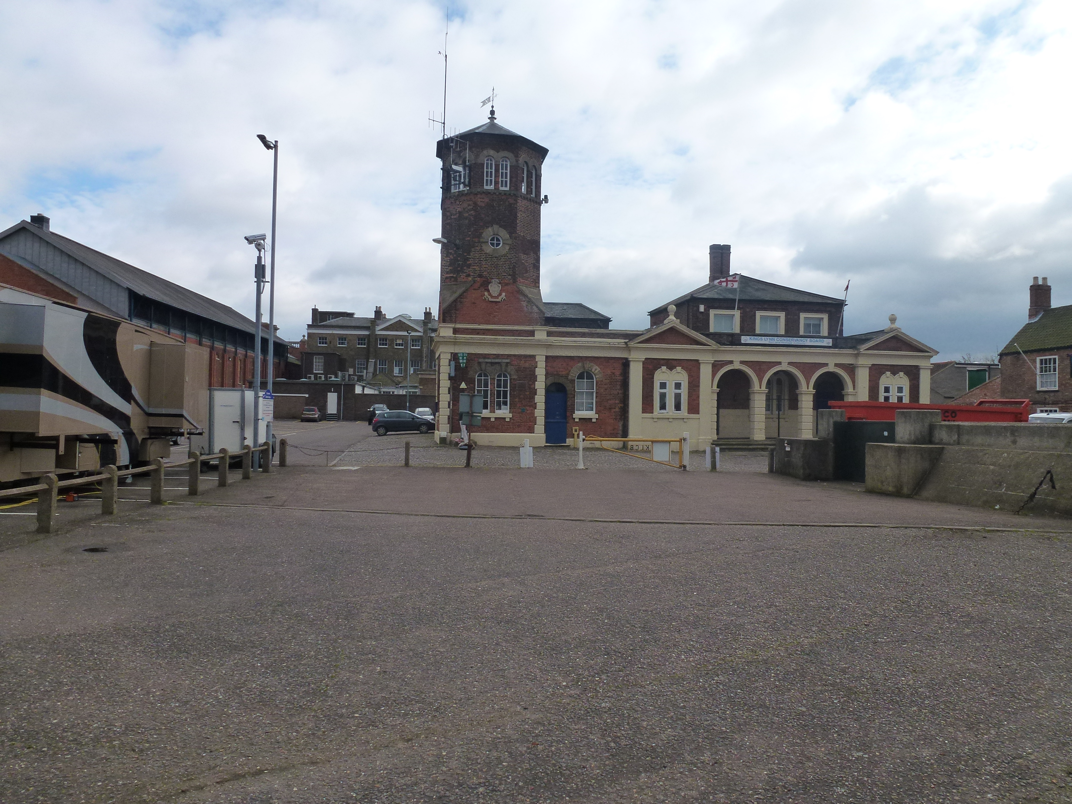 16th century town defences of Kings Lynn.